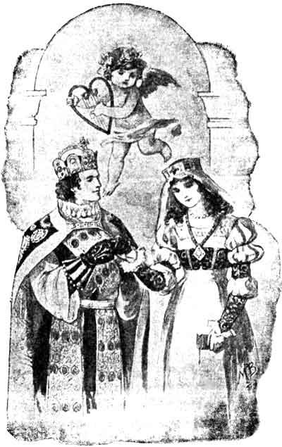 Source: Project Gutenberg e-book: Illustration from The Children's Longfellow, by Doris Hayman (1920), a retelling of some of Longfellow's poems - this illustration is of part of the story of The Golden Legend (1851).